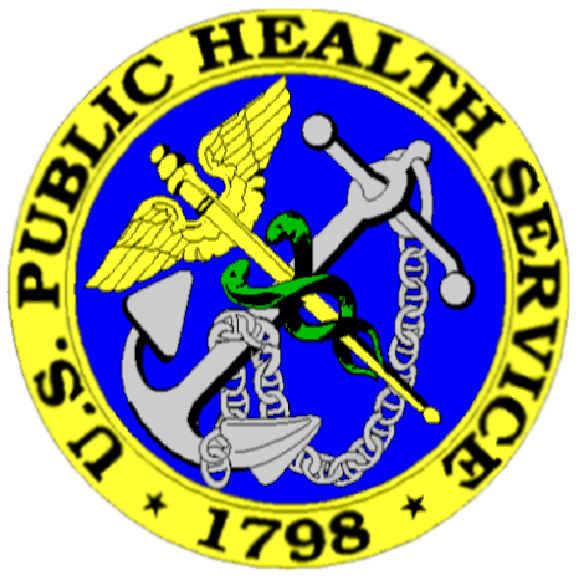 Public Health Service Logo